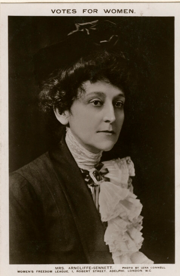 Maud Arncliffe Sennett by Lena Connell published by Women's Freedom League about 1908